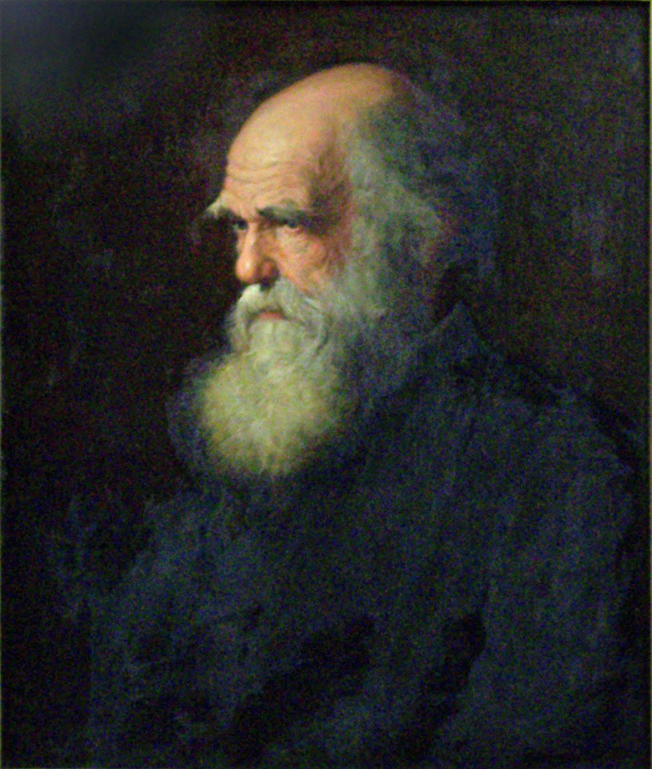 A painting of Charles Darwin from 1875 by Walter William Ouless RA (1848-1933). The painting is in Christ's College at Cambridge University.